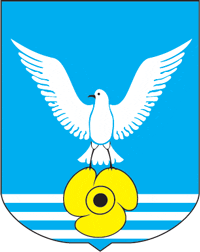 Bolshoy Kamen (Primorsky kray), coat of arms